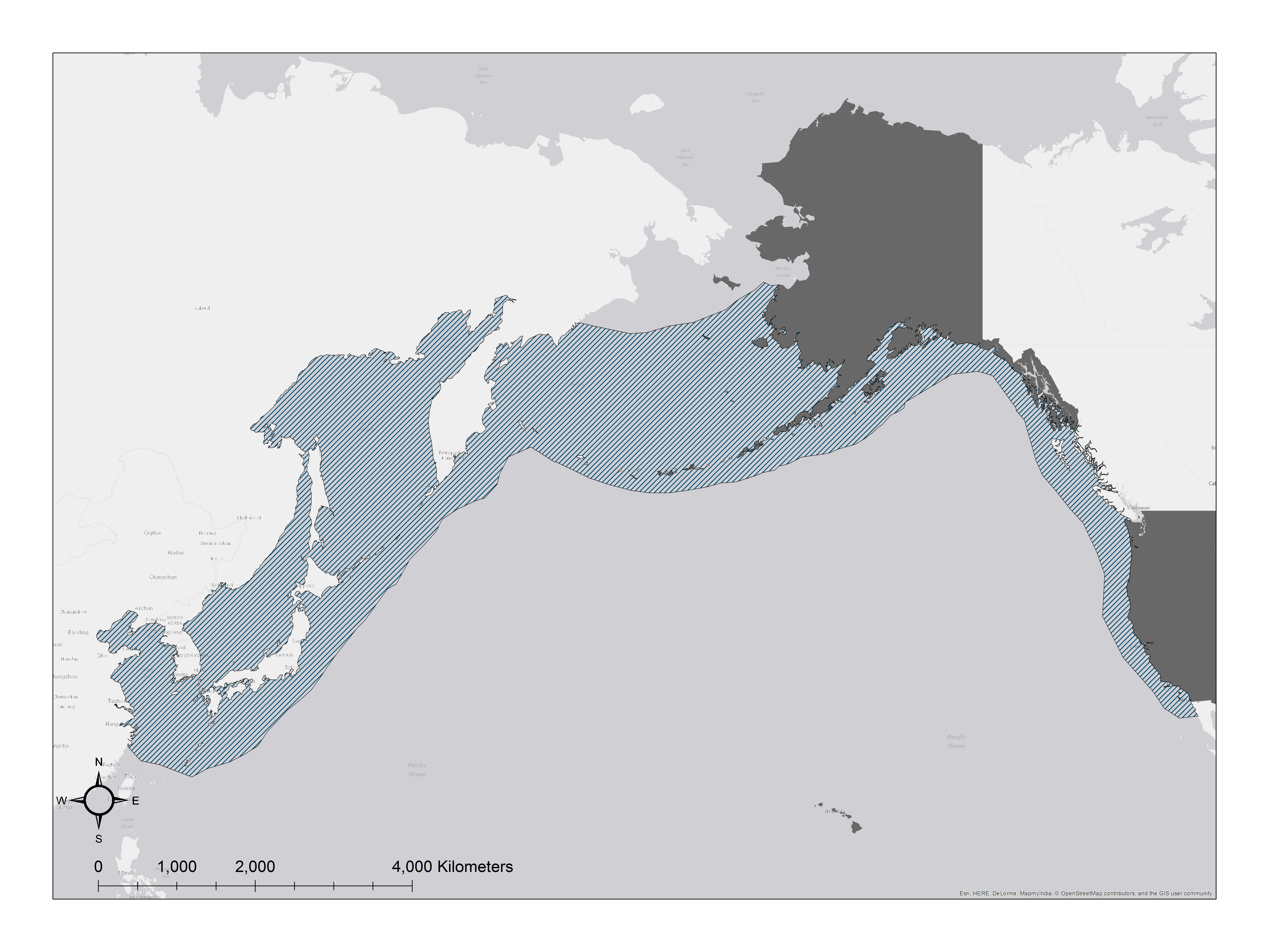 Range of Enteroctopus dofleini Projection: WGS_1984_PDC_Mercator